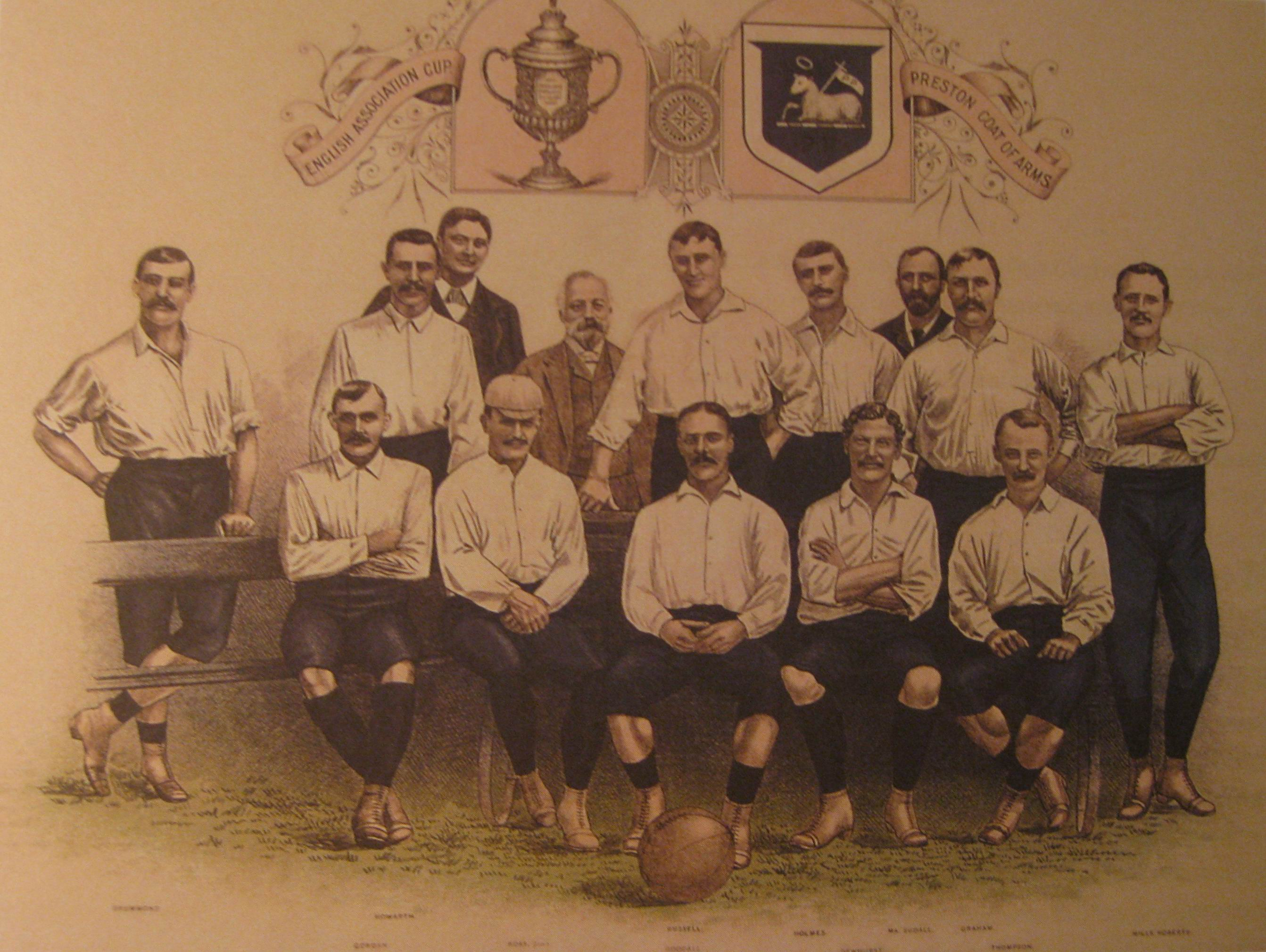 Preston North End, the first Football League champions in 1888-89.